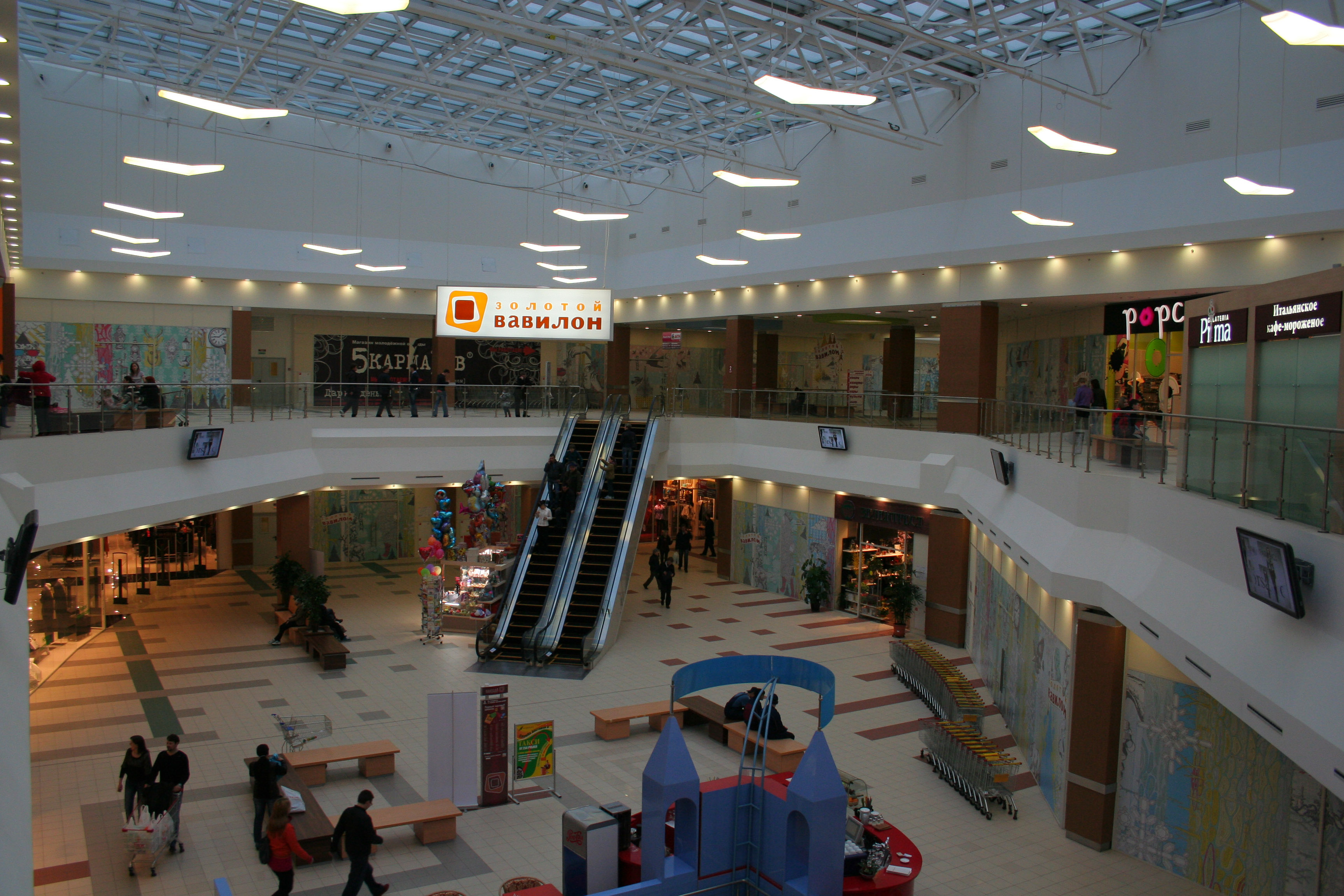 Shopping mall «Golden Babylon Rostokino» in Moscow.